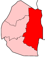 Lubombo is a district of Eswatini